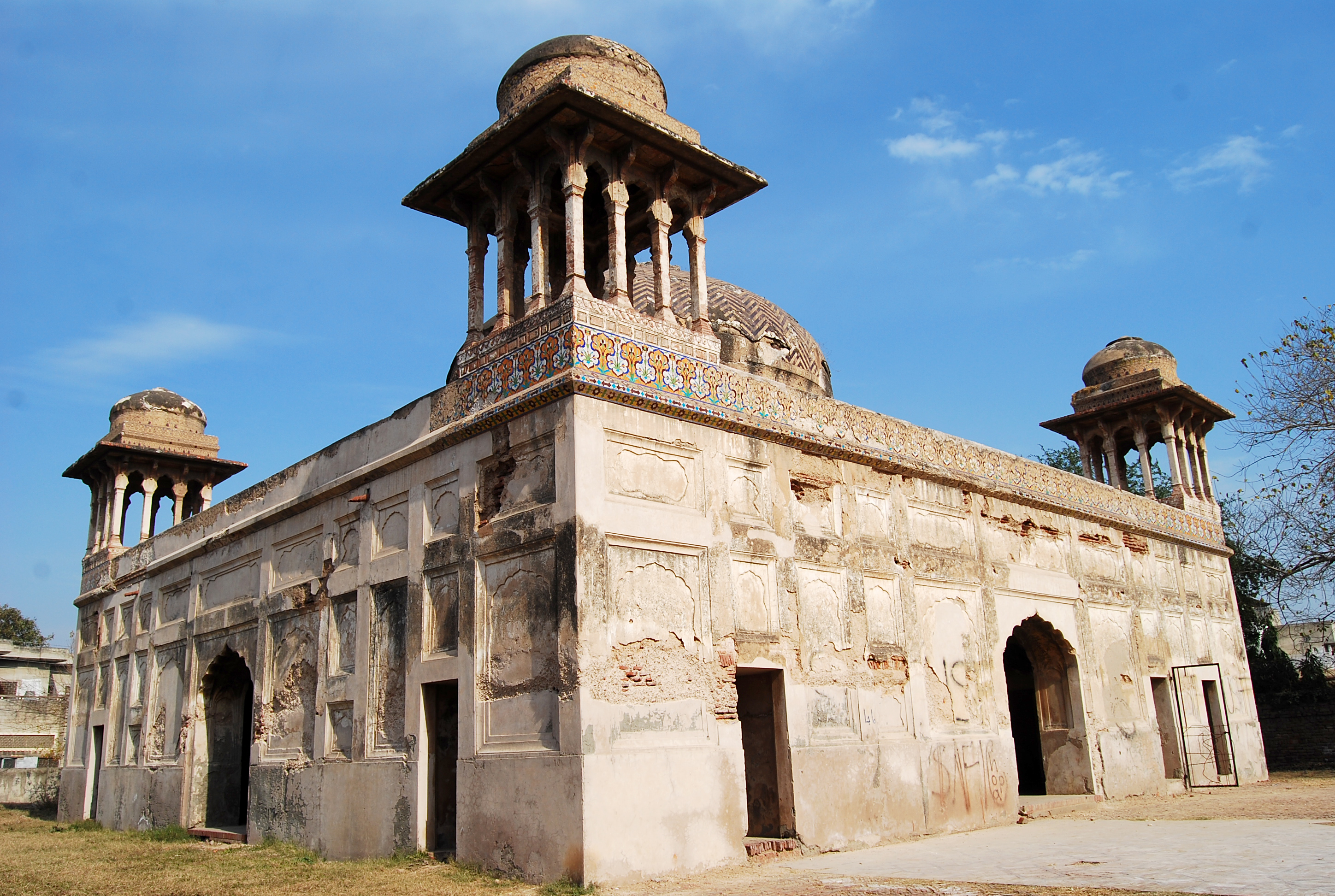 Exterior of Dai Anga. This is a photo of a monument in Pakistan identified as the PB-U-63